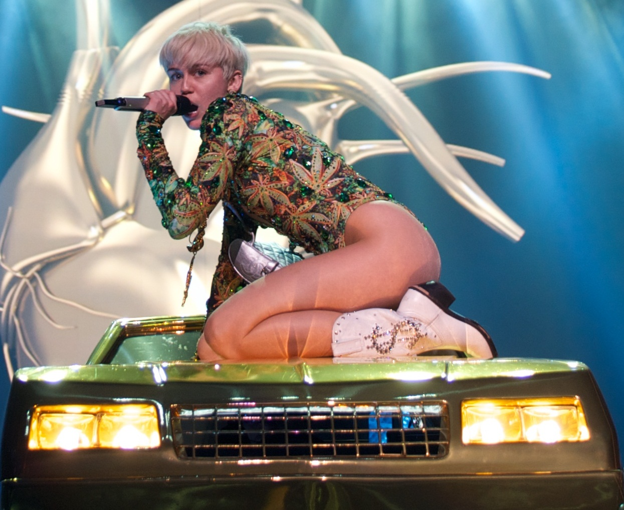 Miley Cyrus performing in Vancouver in 2014